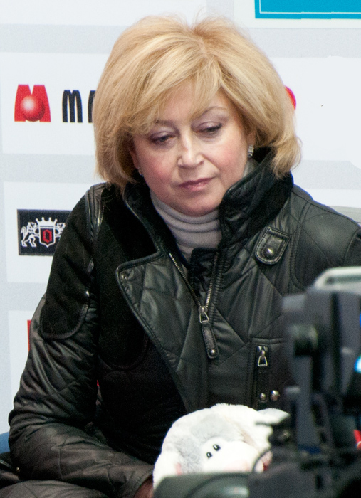 2011 Cup of Russia, free skating.